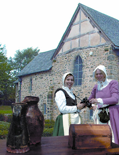 Actors at Donington